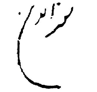 Signature of Hadhrat Hakim Malawi Nuur ud-Din